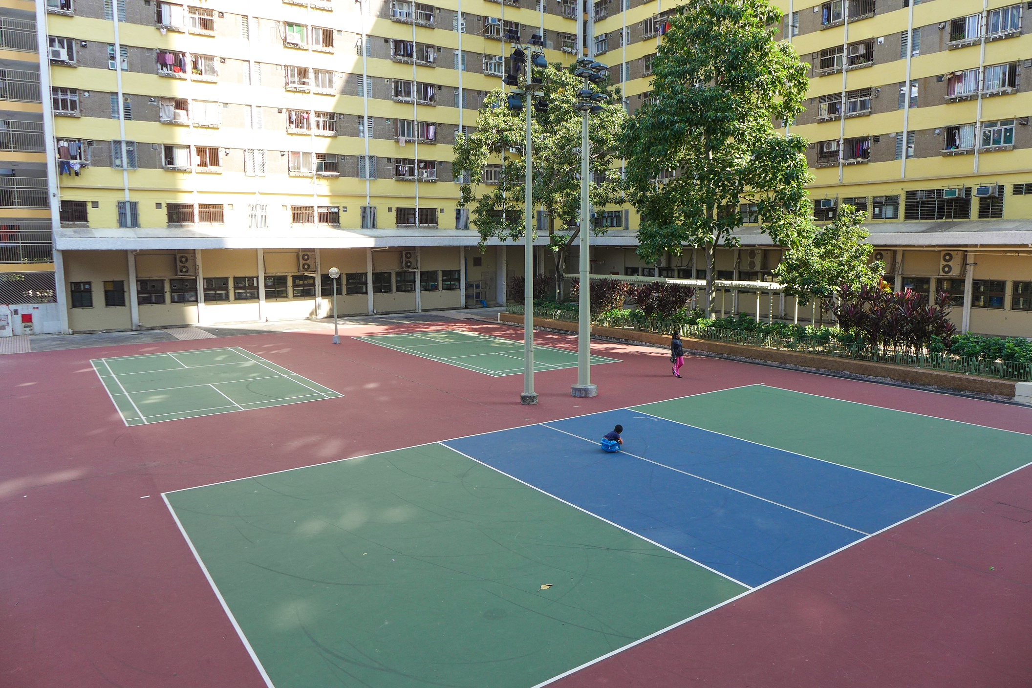 Kwong Fok Estate Badminton and Volleyball Court